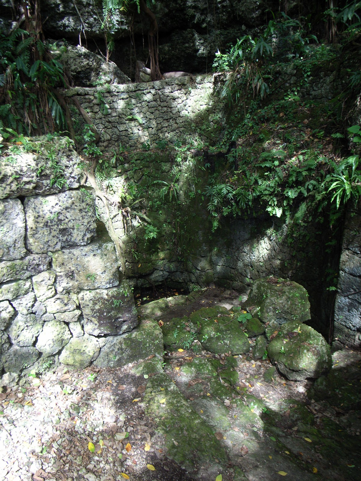 Yamato ga (old well from c.18 century, national historical site), Miyako Island (Miyakojima City), Okinawa, Japan